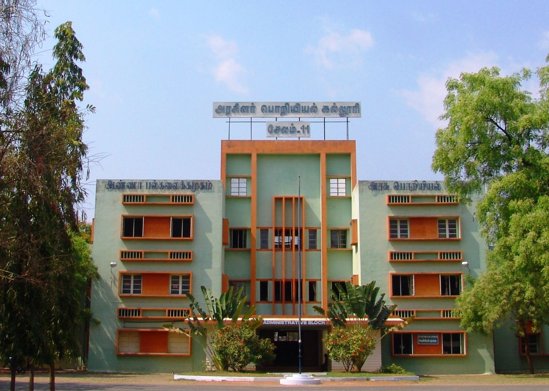 Picture Of Administrative Block,government engineering college, Near Periyar University, Karuppur